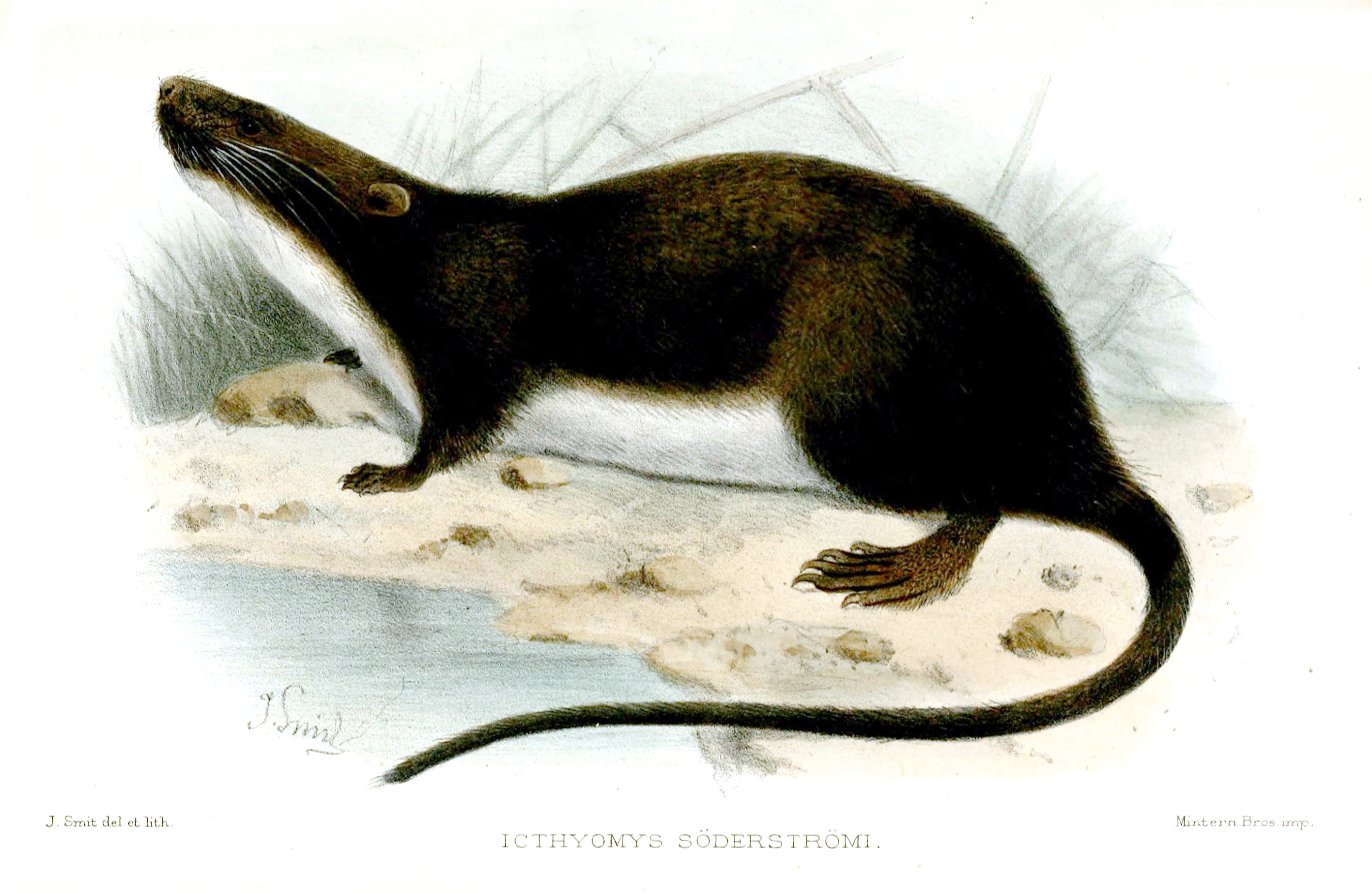 Ichthyomys hydrobates soderstromi